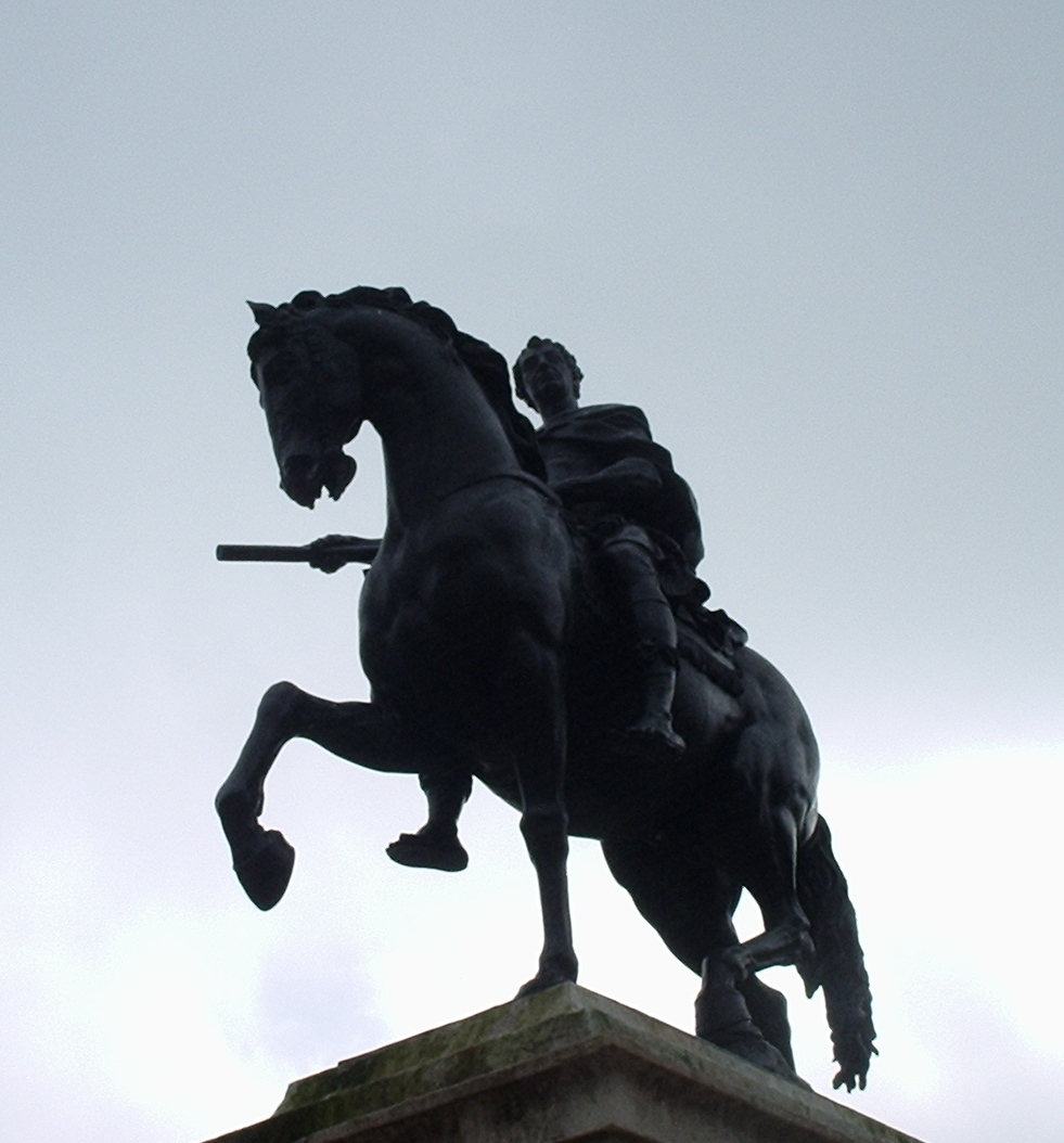 William III statue, Bristol